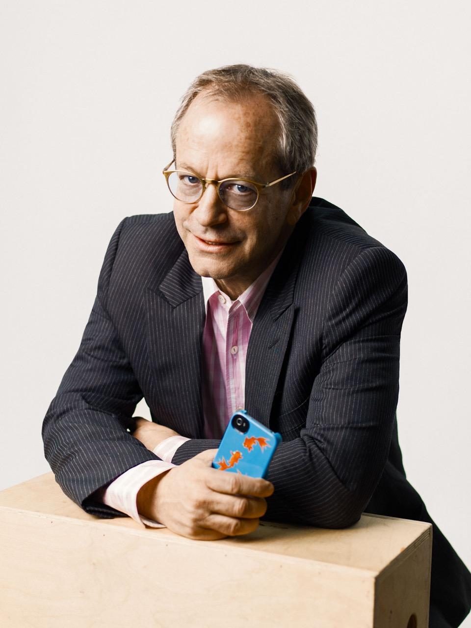 photo of marc brickman